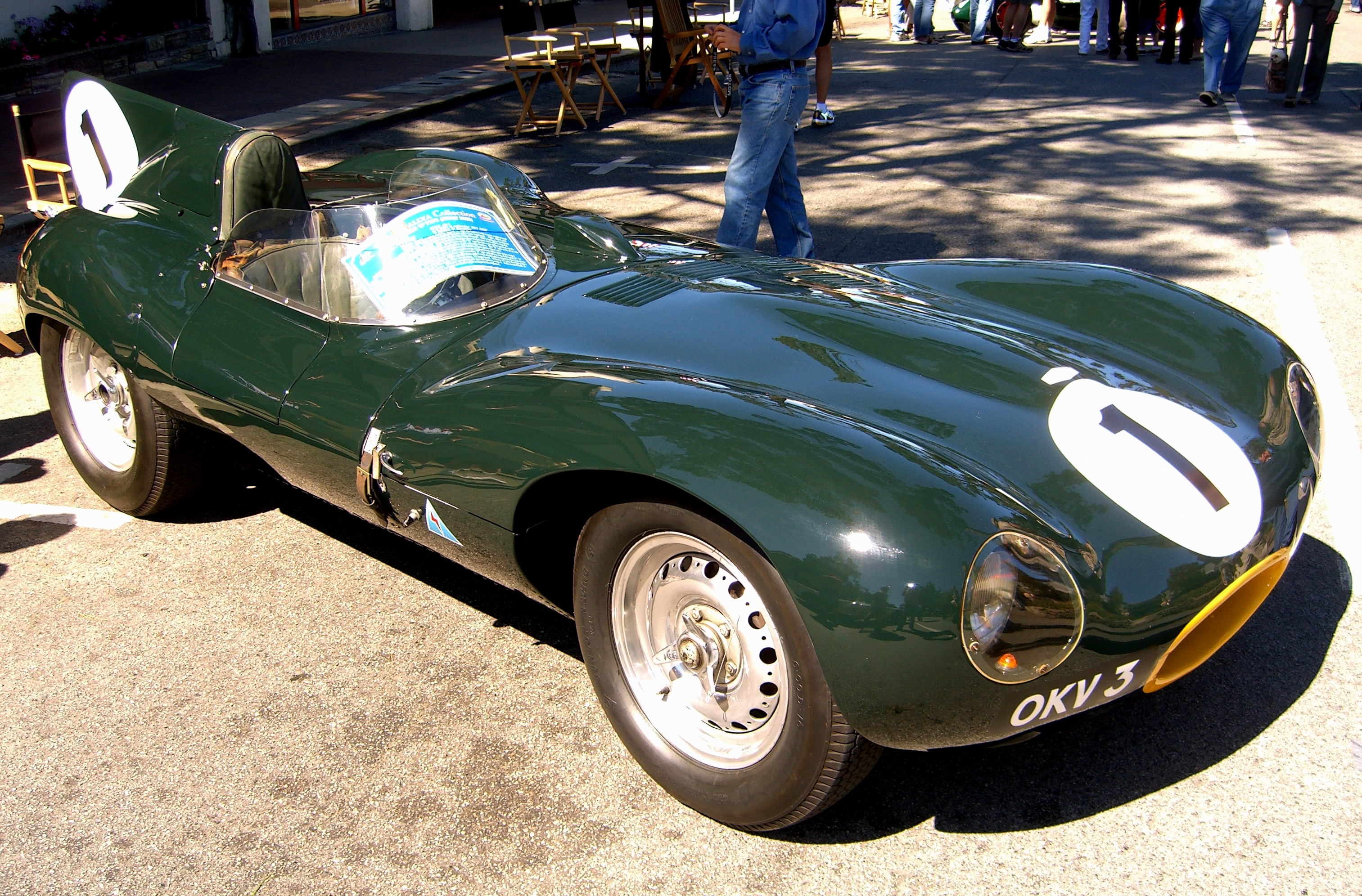 Winner, 1954 Reims 12 Hours: Jaguar XKD404